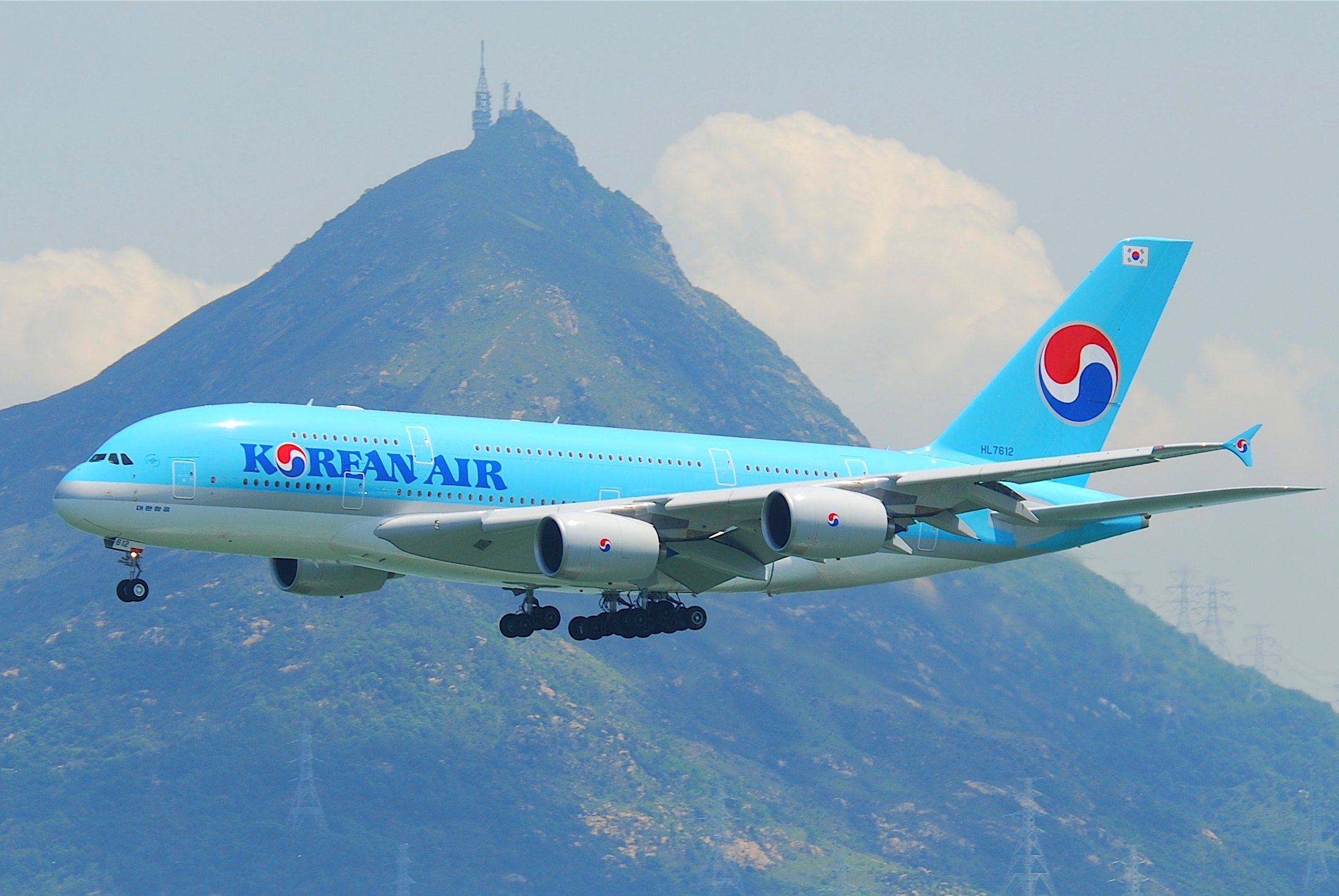 Korean Air Airbus A380-861; HL7612@HKG;04.08.2011/615dk